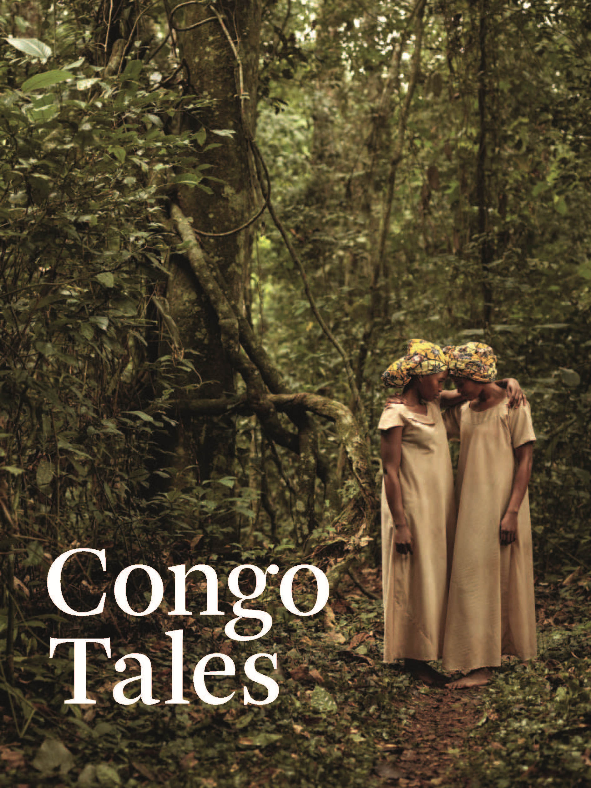 Congo Tales. Told by the People of Mbomo. Racontés par les gens de Mbomo